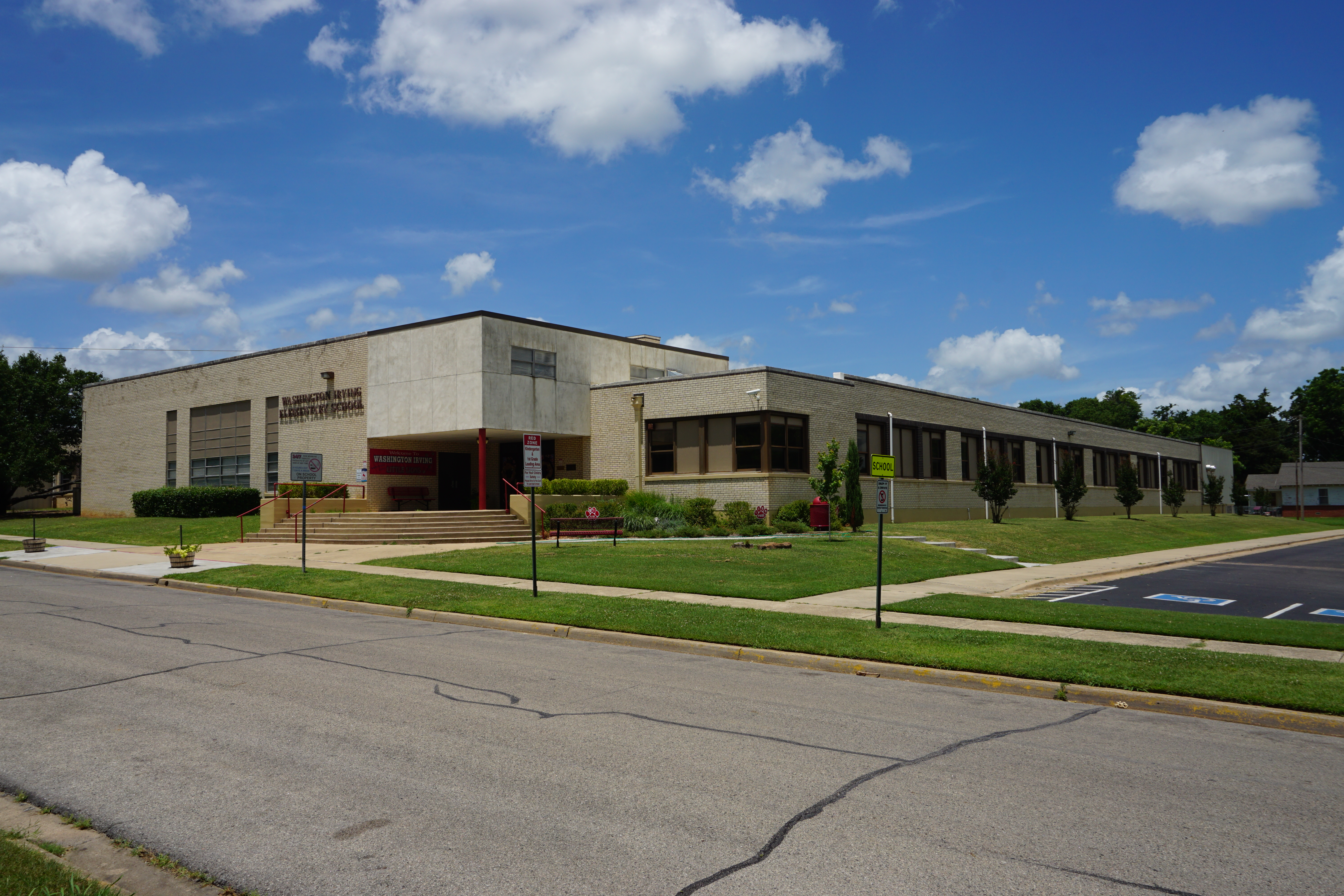 Washington Irving Elementary School in Durant, Oklahoma (United States).